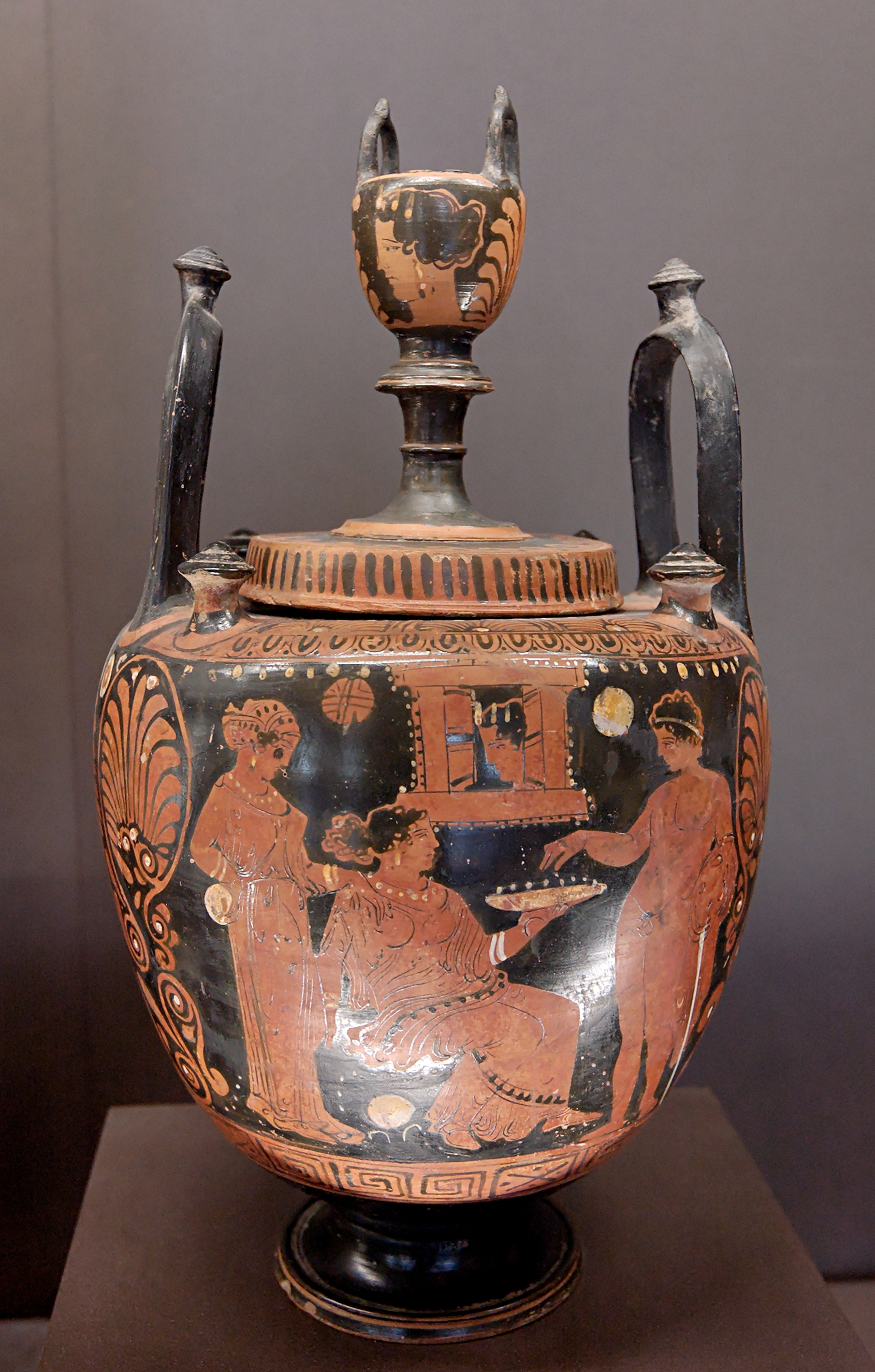 Woman and youth. Side B from a Apulian red-figure lebes gamikos, 360–350 BC.